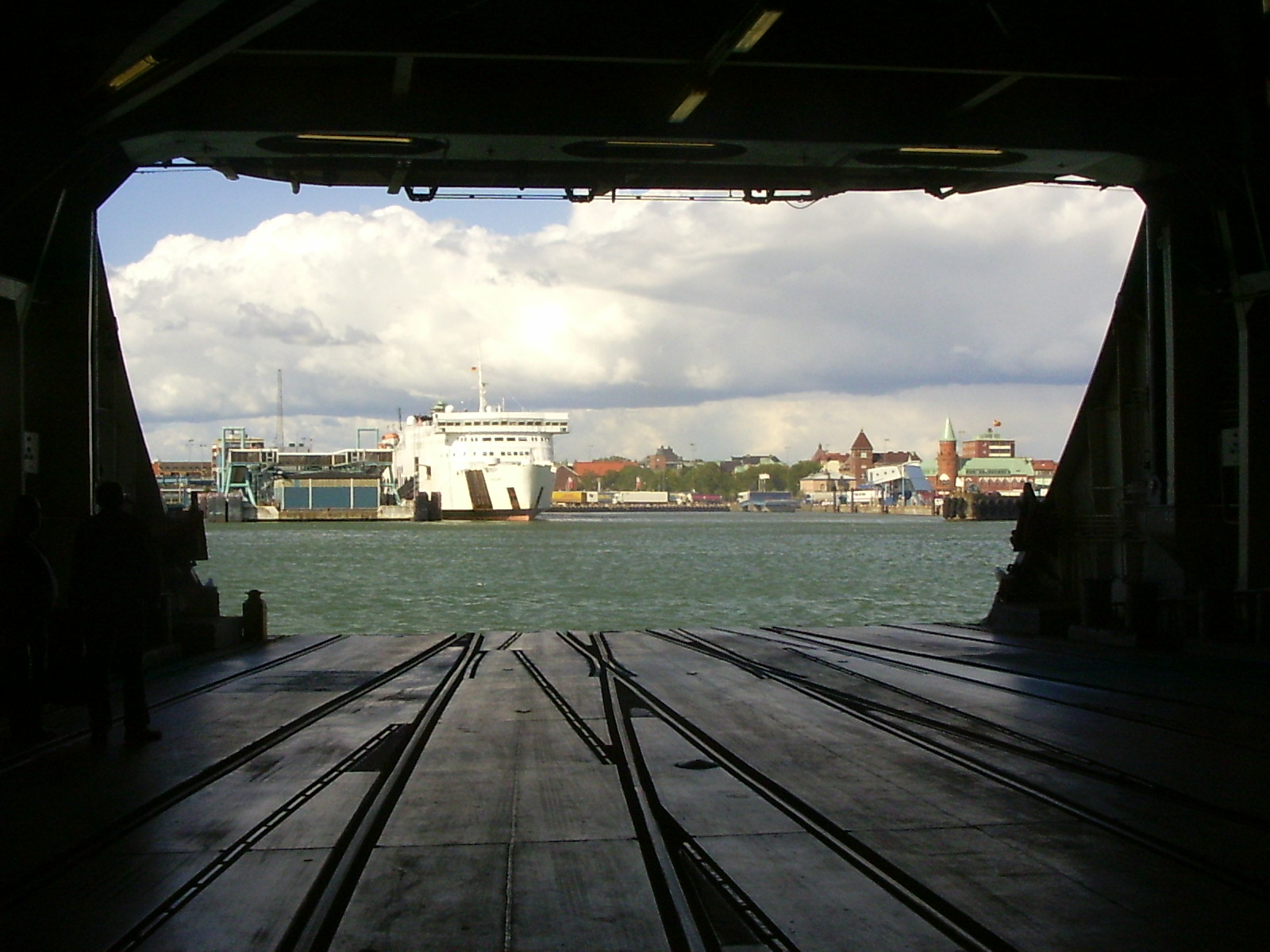 Trainferry approaching Trelleborg